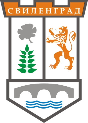 Coat of arms of Svilengrad, Bulgaria